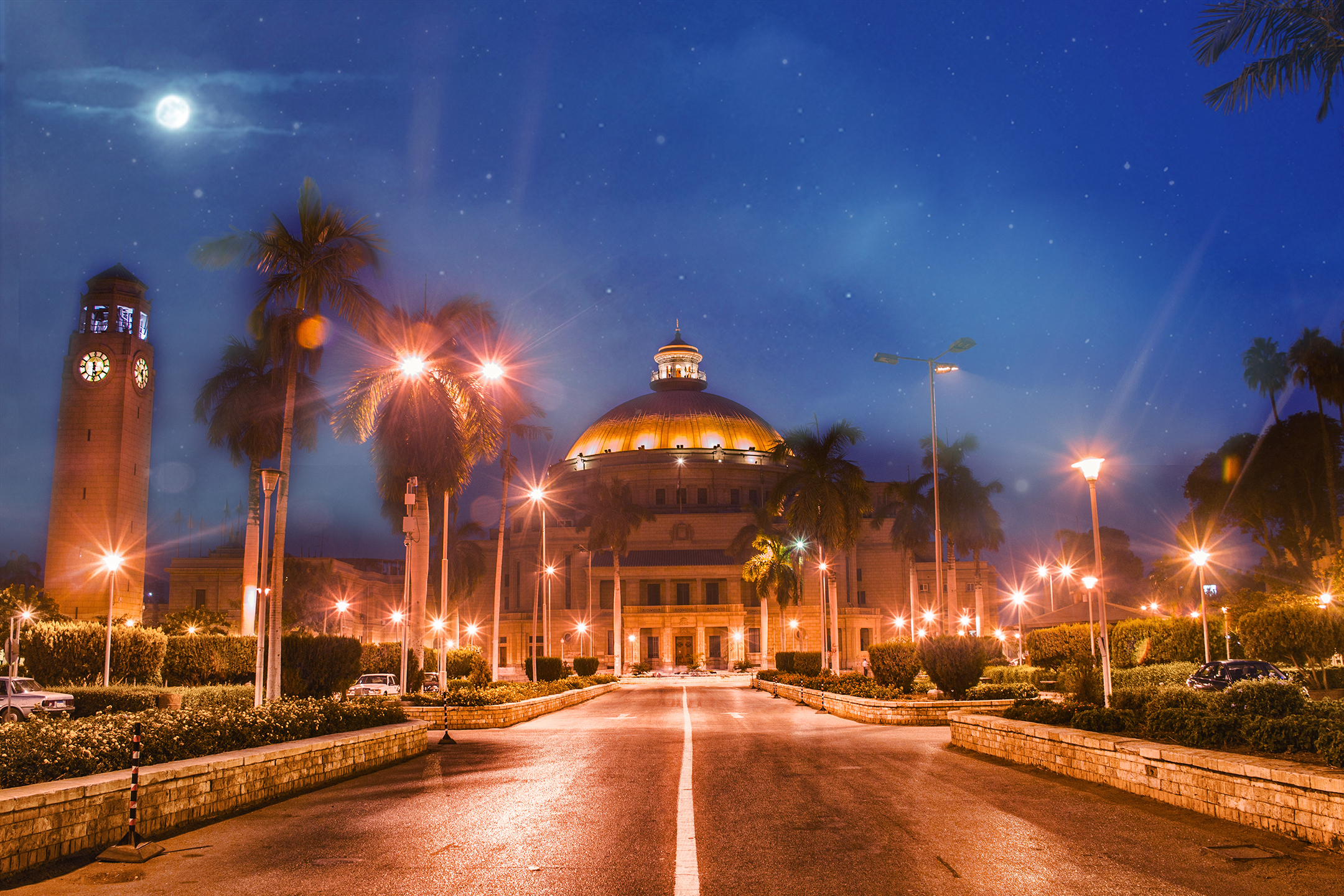 Cairo University